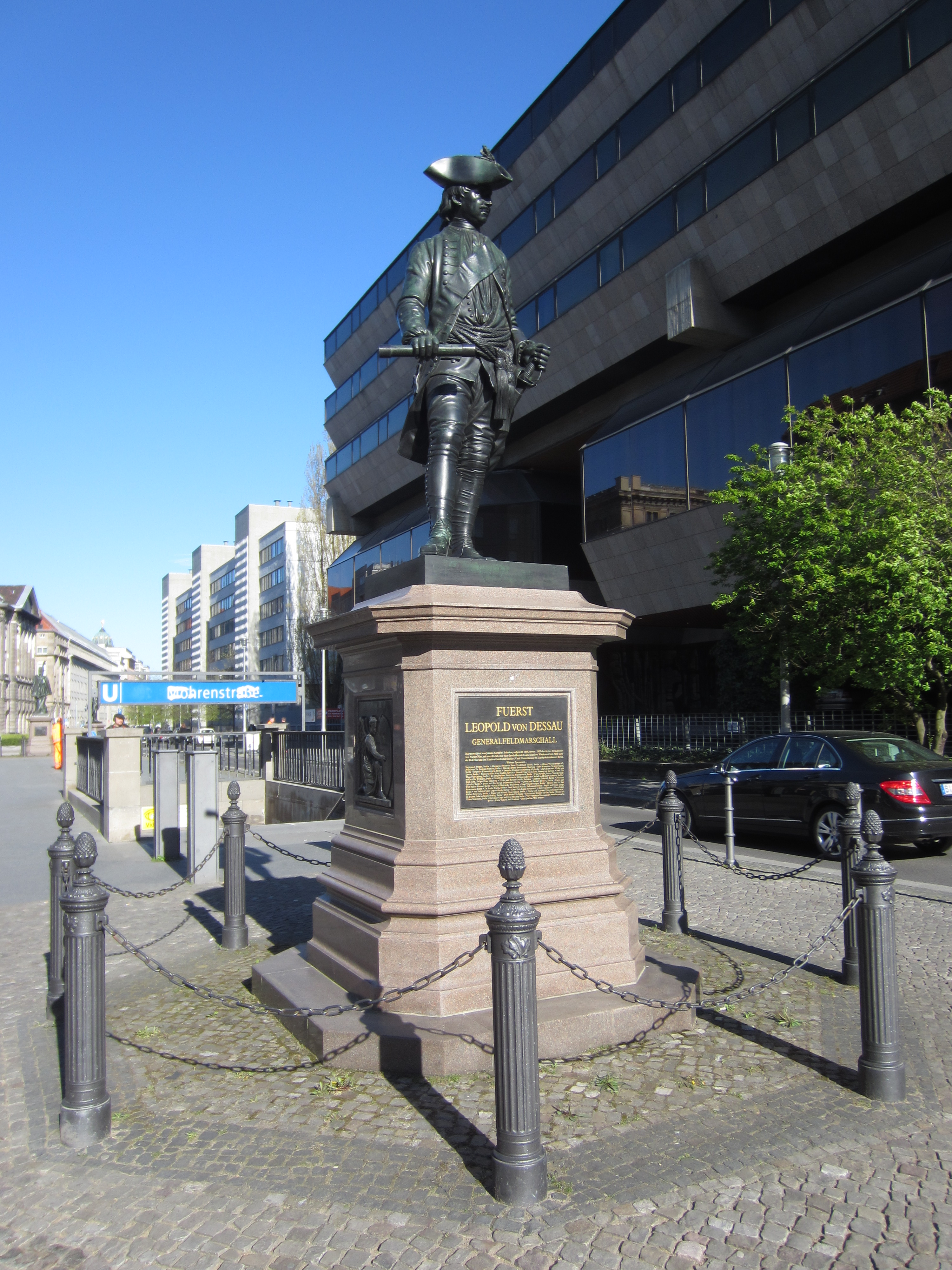 Statue of Leopold I, Prince of Anhalt-Dessau, Berlin, Germany (April 2016)